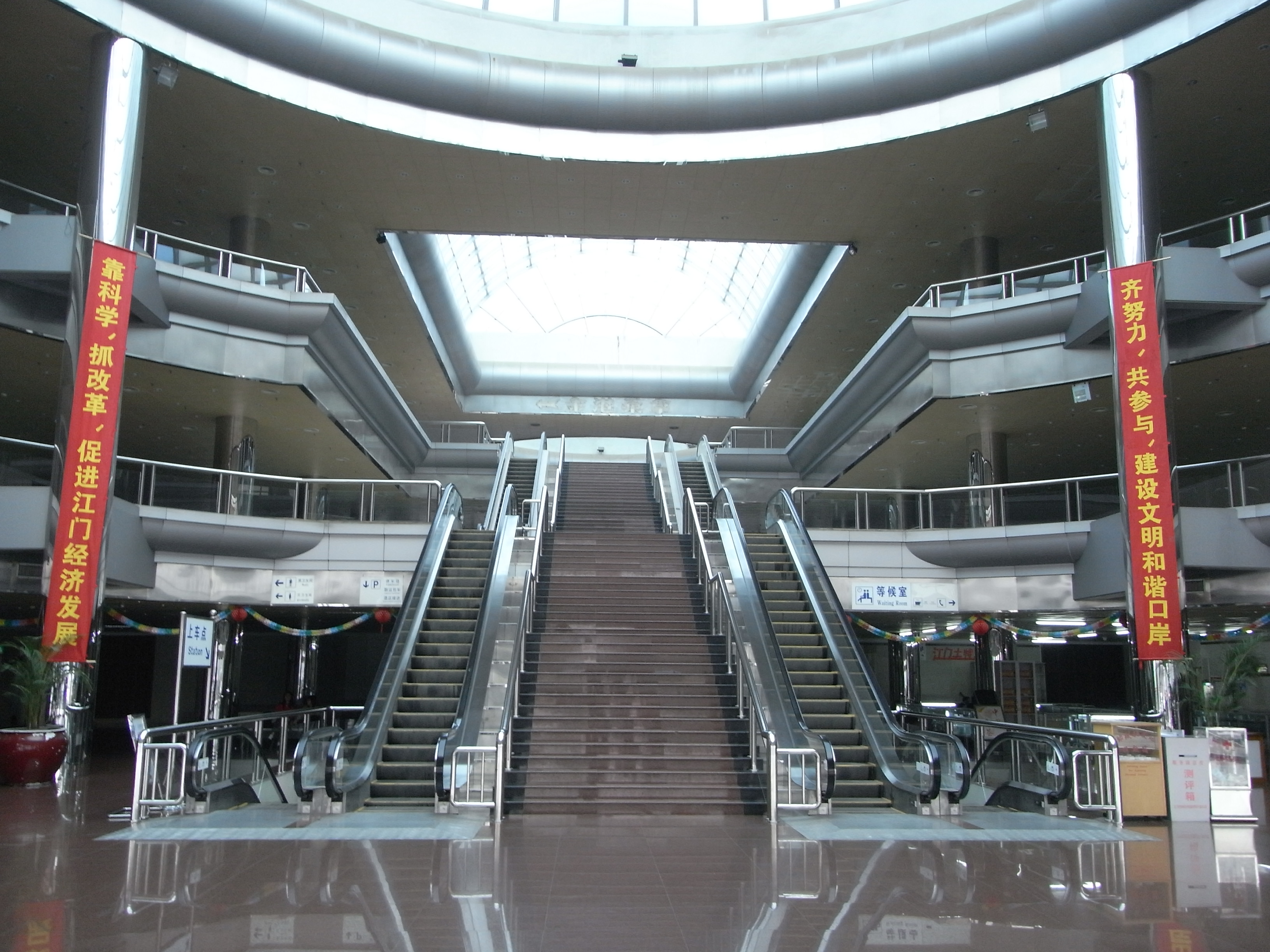 2009年12月 - 江門市港澳客運口岸zh:渡輪zh:碼頭 [1]